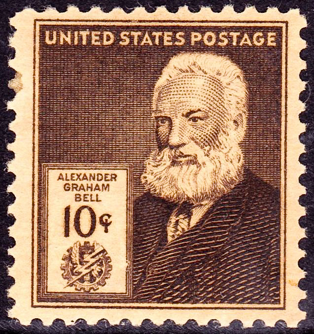 US Postage stamp, Alexander Graham Bell, issue of 1940.